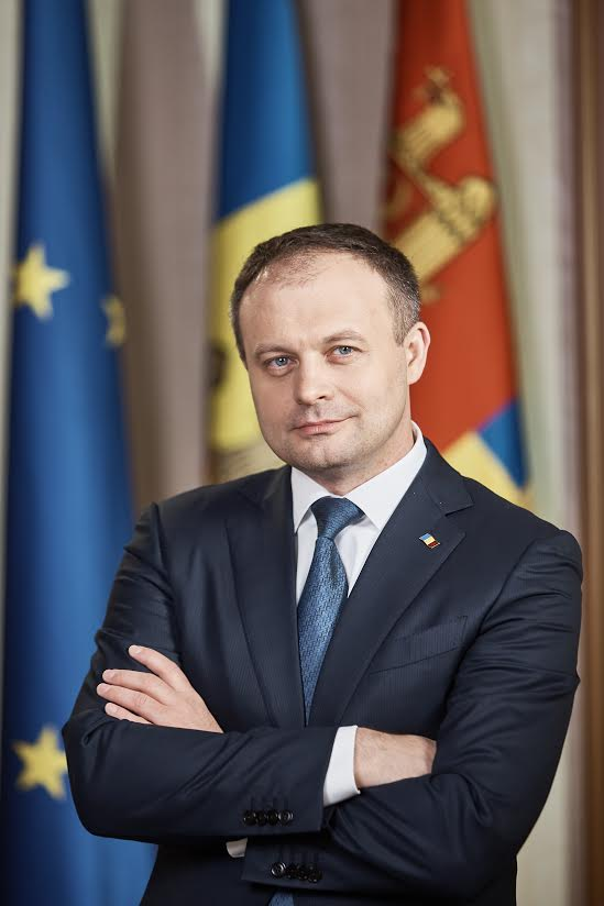 Adrian Candu